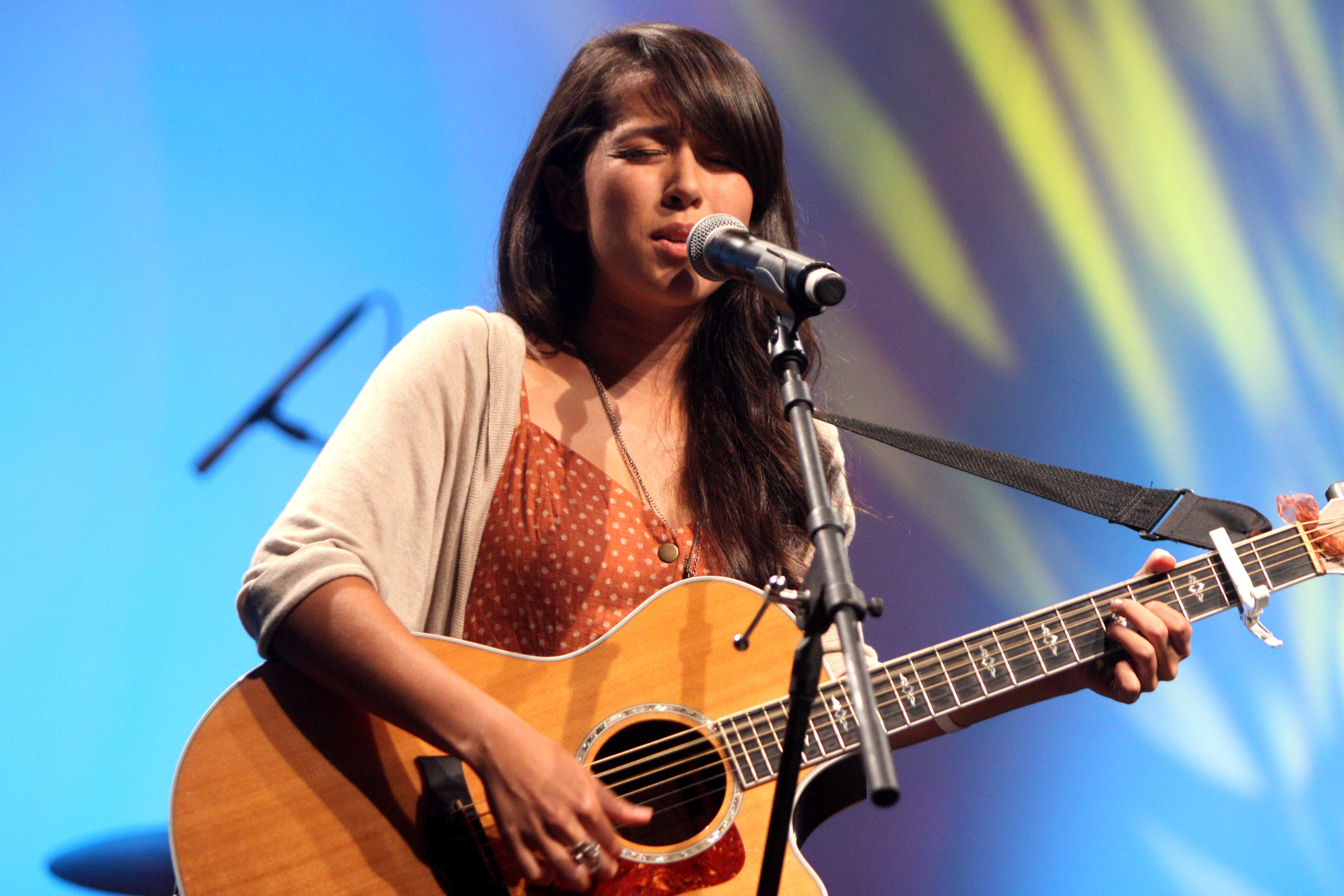 Kina Grannis performing at VidCon 2012 at the Anaheim Convention Center in Anaheim, California.